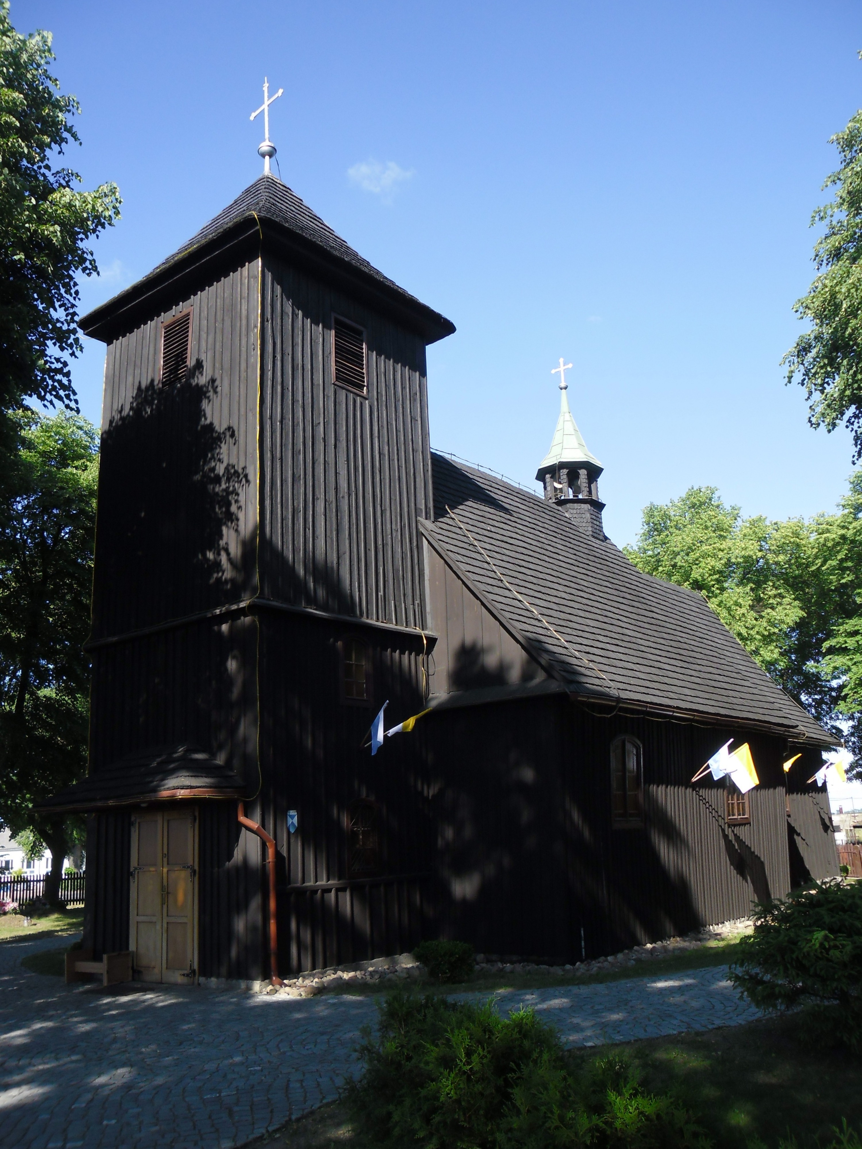 Photo of St. Michael inGrzybowo (Wielkopolska). The roof is covered with shingles, the view from the entrance.